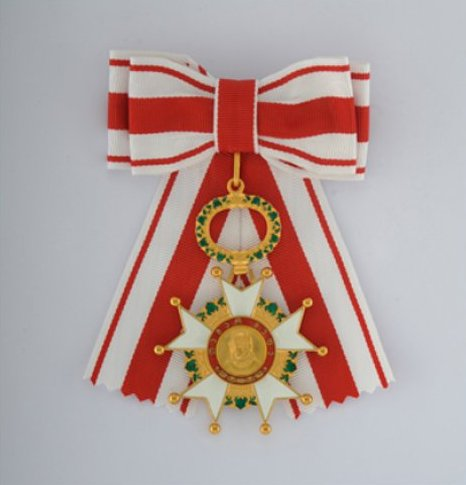 Queen Tamar Order (established in 2009 in Georgia)